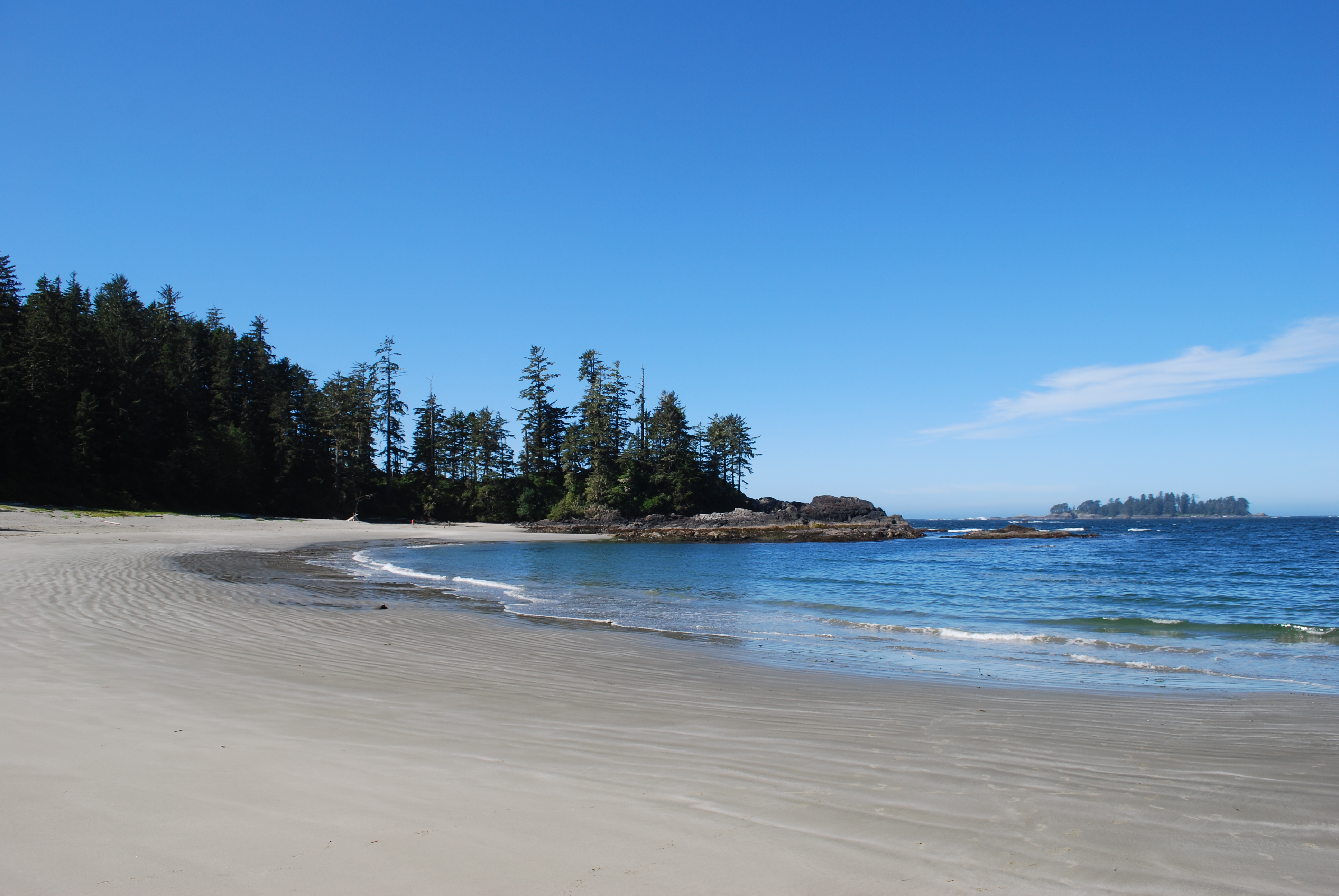 Halfmoon Bay, near Ucluelet B.C., Canada (Pacific Rim National Park Reserve)